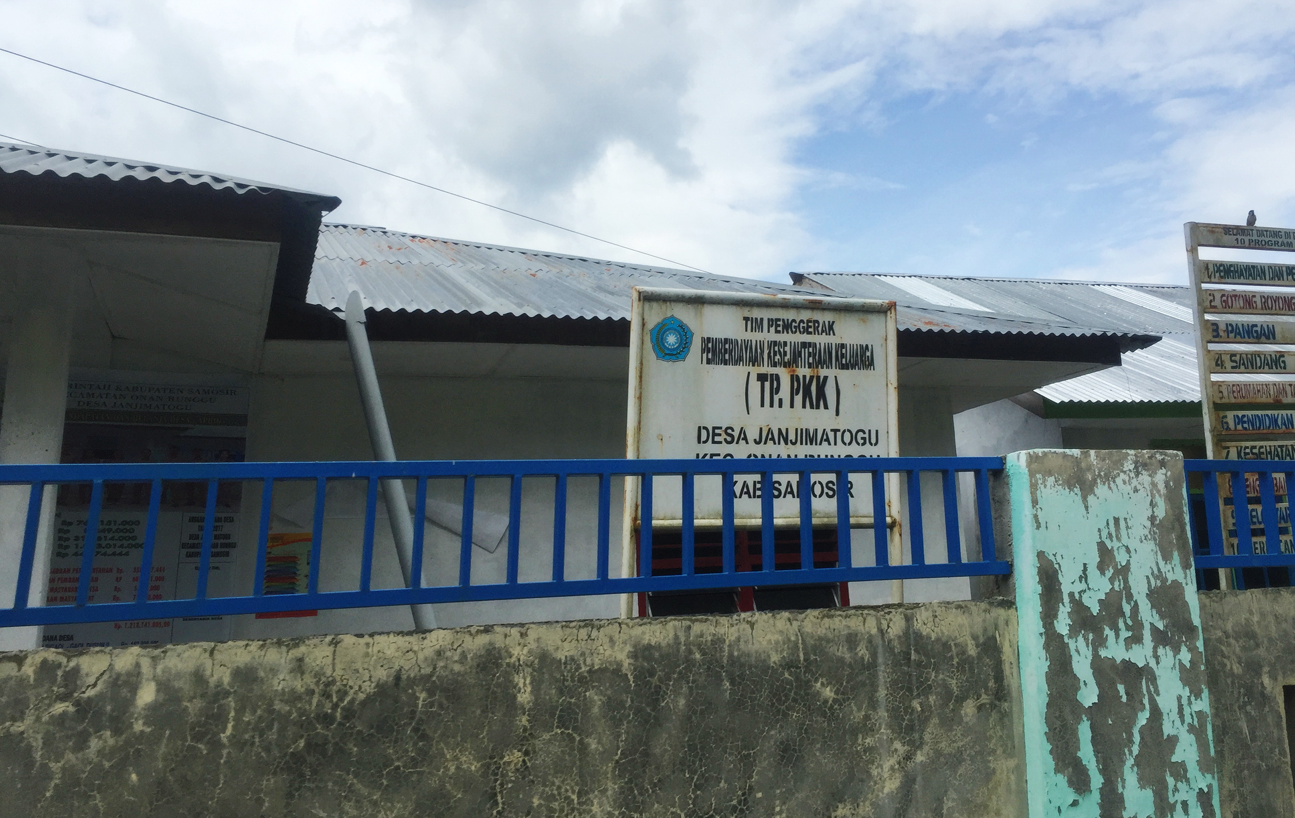 office of Janji Matogu, Onan Runggu, Samosir